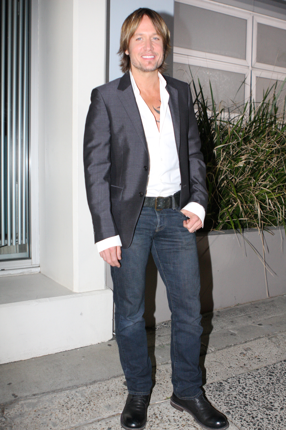 The Voice Judges, Celebrities Dine At Bondi Icebergs Dining Room and Bar, Sydney, Australia... Seal, Keith Urban, Nicole Richie and her husband, Joel Madden, along with host Darren McMullen, were in the mix of celebrities from The Voice fame who tonight dinned at Bondi Icebergs Dining Room and Bar, but not before navigating through a sea of news media (photographers and videographers) estimated to be a pack of 40 or 50. Even the boys in blue (NSW Police) circled the surrounding streets as part of the security plan, with parking police ("brown bombers") making a killing fining cars parked illegally. Madden was seen putting his hand over his eyes and face, as to avoid all the flashbulbs, saying something like "this is too much". We sure hope all The Voice cast enjoyed their meal and drinks, to help compensate the over enthusiast pack of news media that ensured tonight. It's unclear when the visitors may trek back to Bondi Beach. The Voice continues to dominate Australian television ratings. Fair winds. Websites The Voice Seal official website Bondi Icebergs Dining Room and Bar Bondi Icebergs Eva Rinaldi Photography Flickr Eva Rinaldi Photography Music News Australia